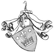 Coat of arms of the medieval Nelipić noble family